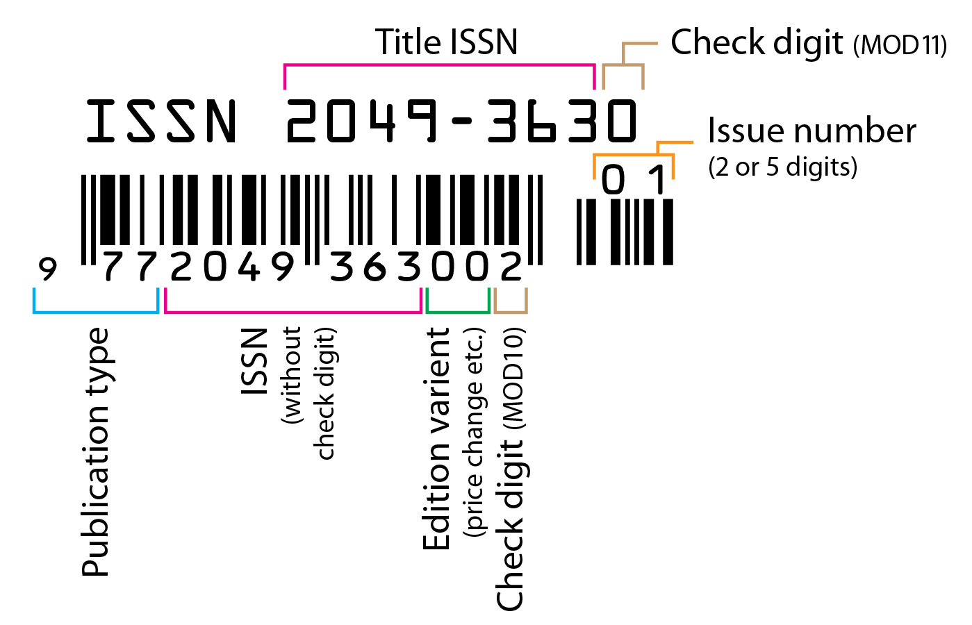 Issn barcode explainedEesti: ISSN vöötkoodi selgitus